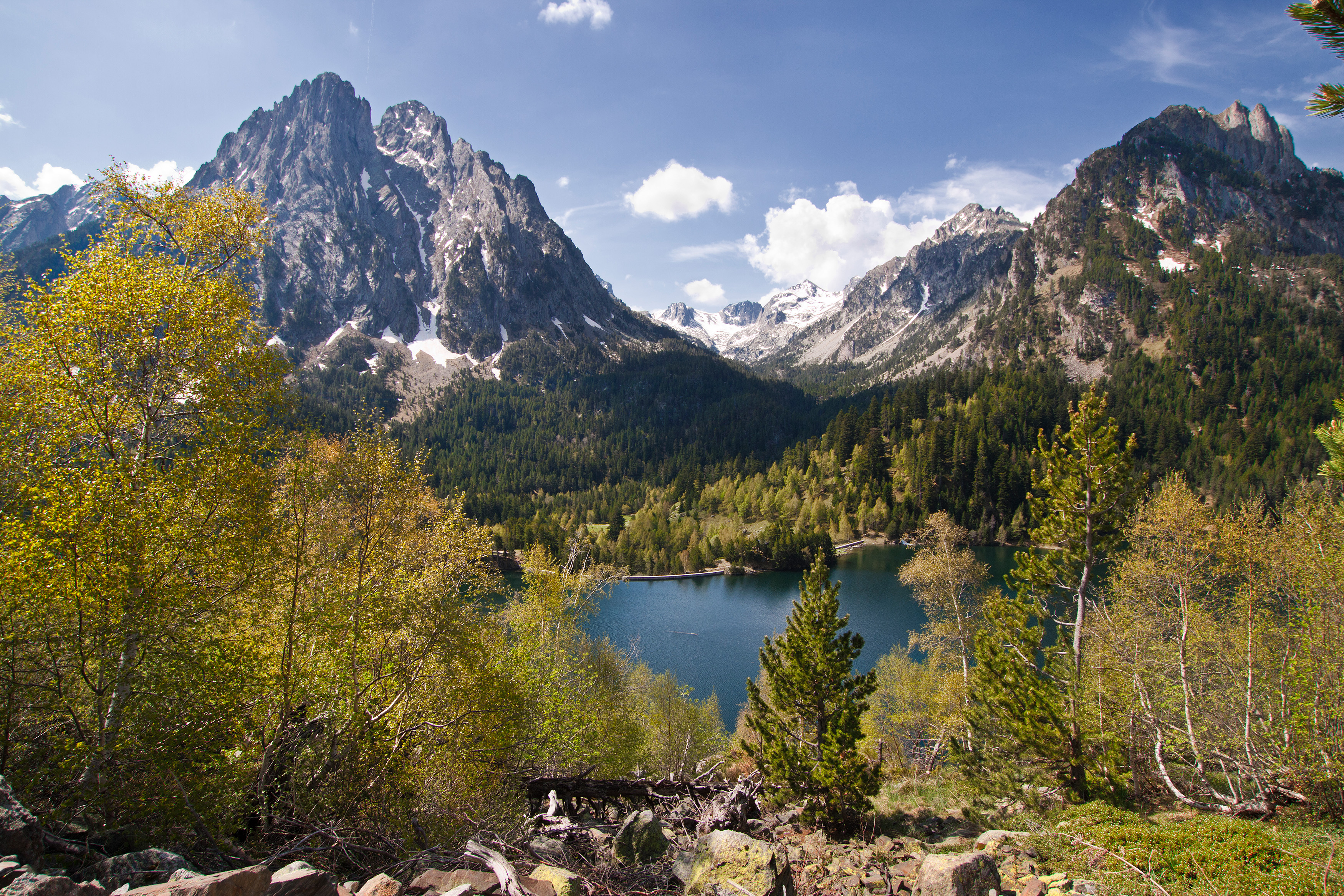 This is a a photo of an emblematic summit in Catalonia, Spain, with id: CE-261069006